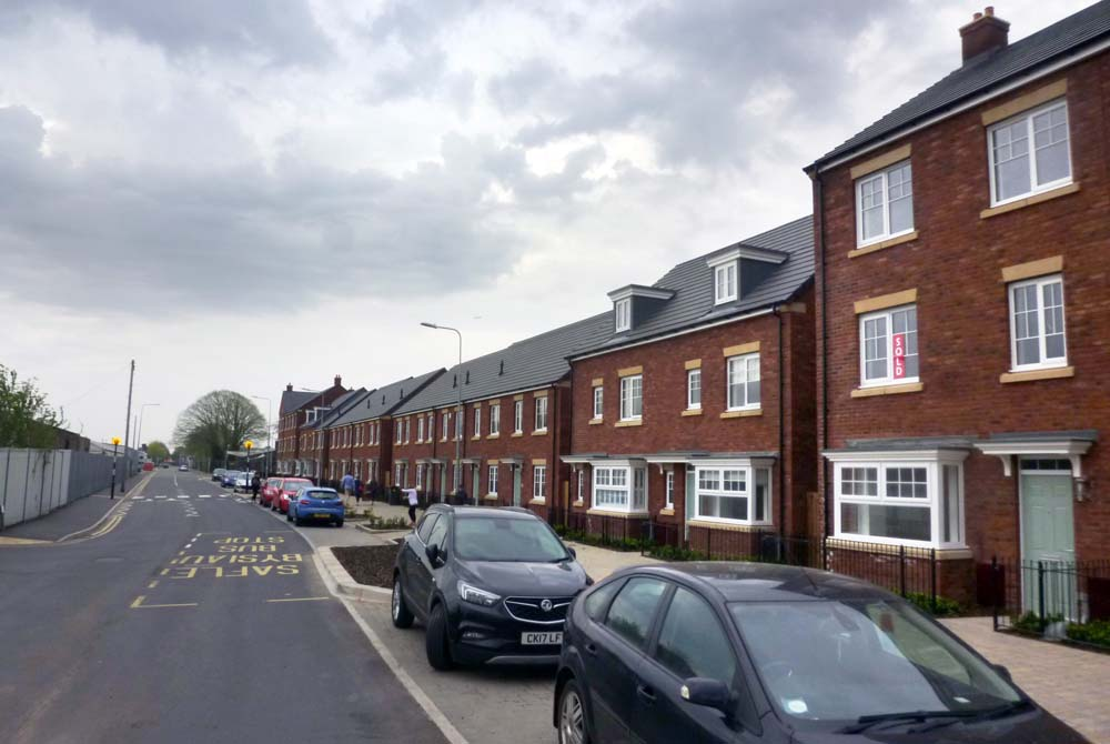 Part of 'The Mill' housing development in Canton, Cardiff, where over 800 houses are being built on the old Ely Paper Mill site